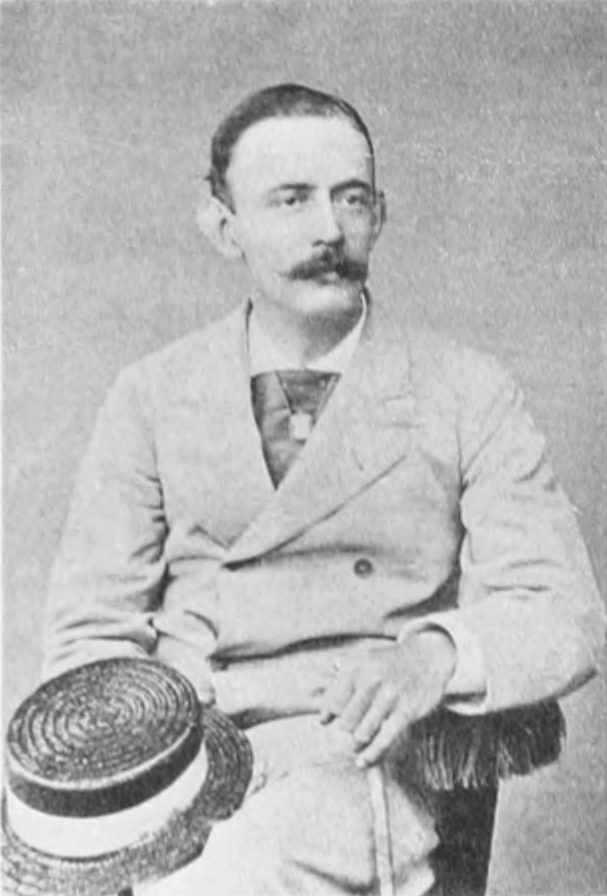 Portrait of J. Cheever Goodwin